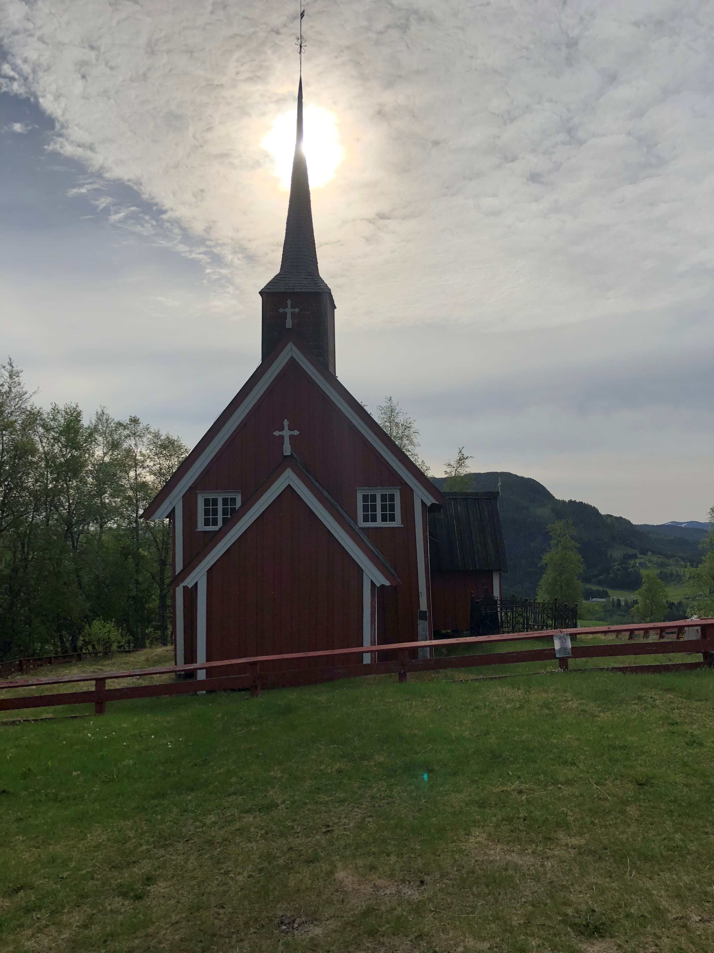 Gløshaug Church in Grong, Trøndelag, Norway